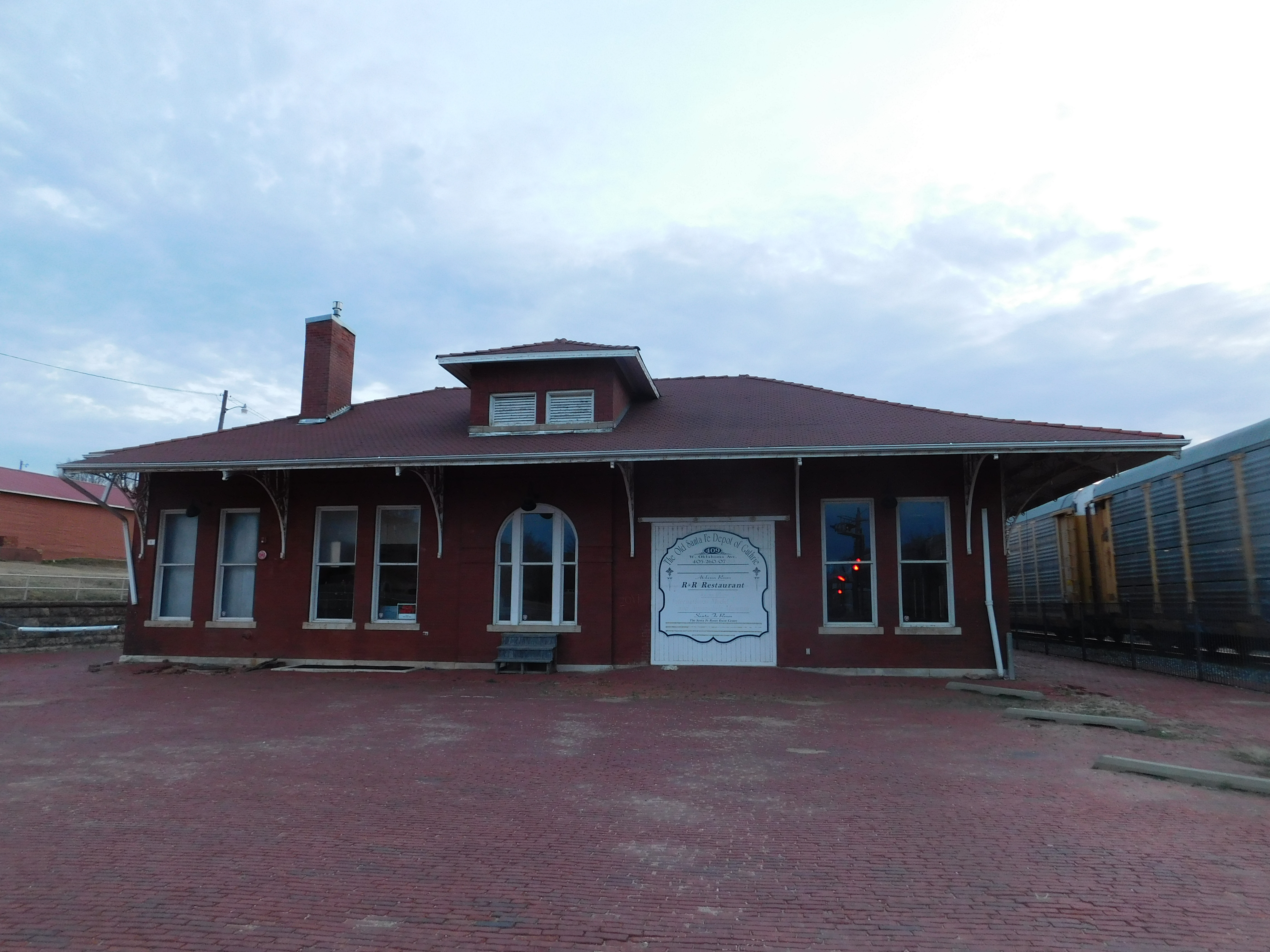 The former Atchison, Topeka and Santa Fe Railway station in Guthrie, Oklahoma.